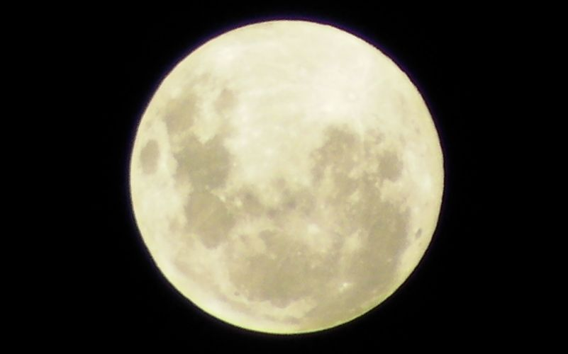 Full moon seen over Perth, Western Australia on New Years Eve 2009/2010